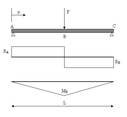 Simply supported beam with central point load